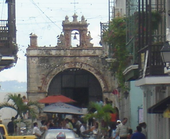 Capilla de Cristo in Old San Juan, Puerto Rico, built in 1753. Capilla de Cristo in Old San Juan, Puerto Rico, built in 1753.